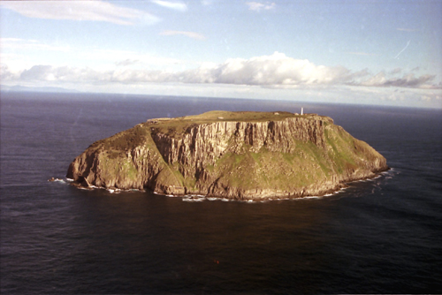 Tasman Island (Tasmania)